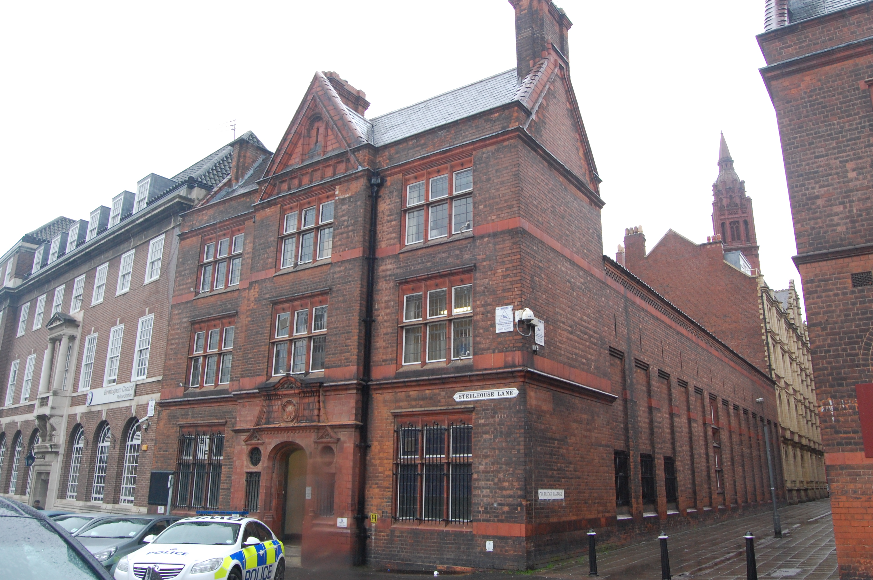 Victorian cell block at Steelhouse Lane police station, Birmingham, England. (Taken in heavy rain - better pics to follow!)